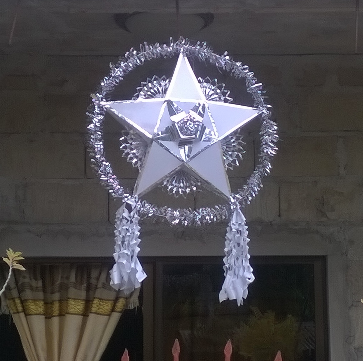 Barnstar on Philippine house as Christmas decoration